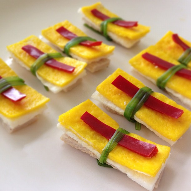 minari ganghoe (waterdropwort rolls)